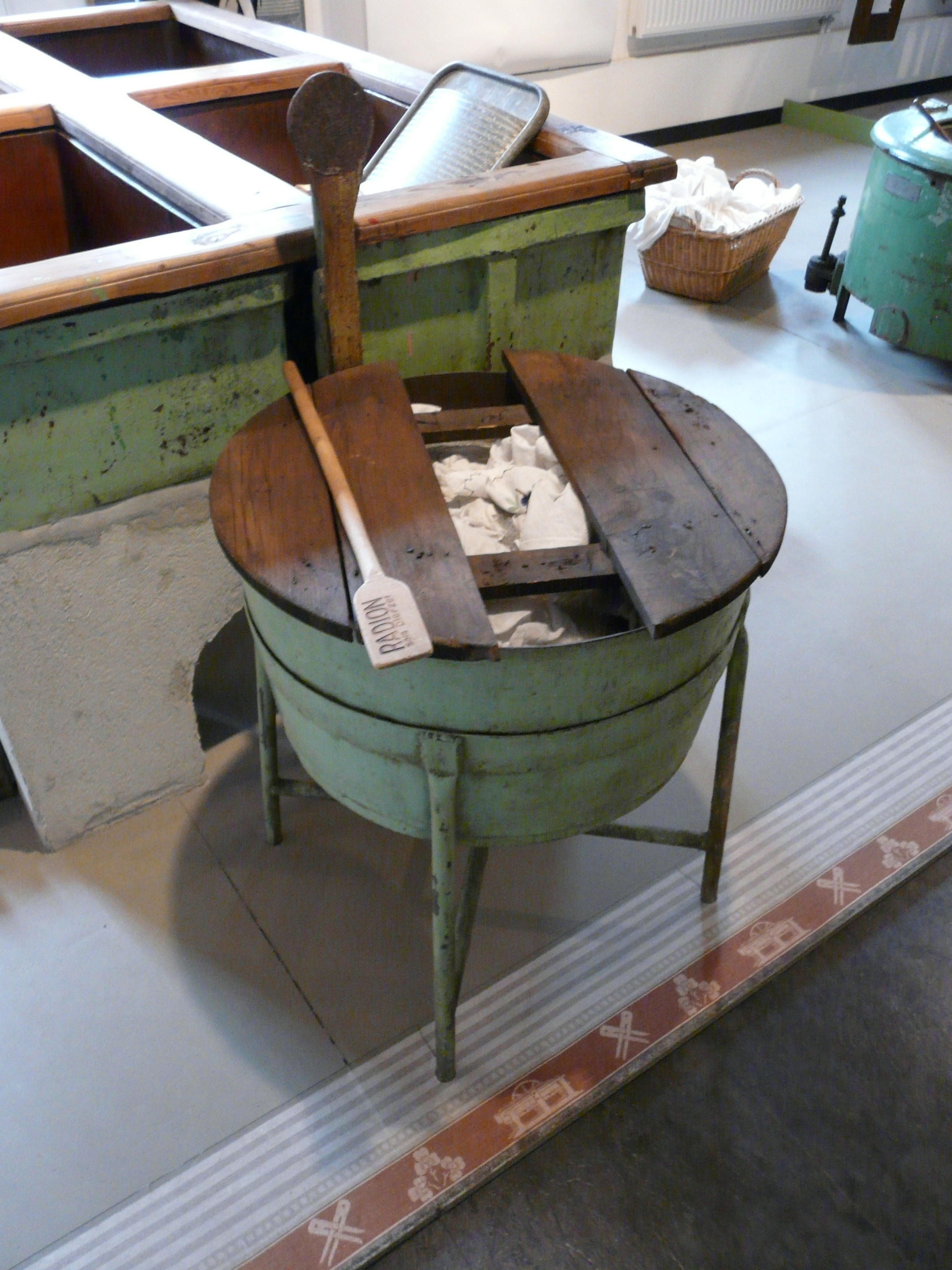 Katowice, Nikiszowiec. Muzeum Historii Katowic. From the collections: "U nos w doma na Nikiszu" (depictions of average households, pics 18-49) and "Woda i mydło najlepsze bielidło" (depictions of communal laundry, pics 5-17).